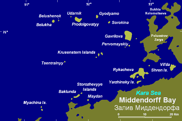 color bay map